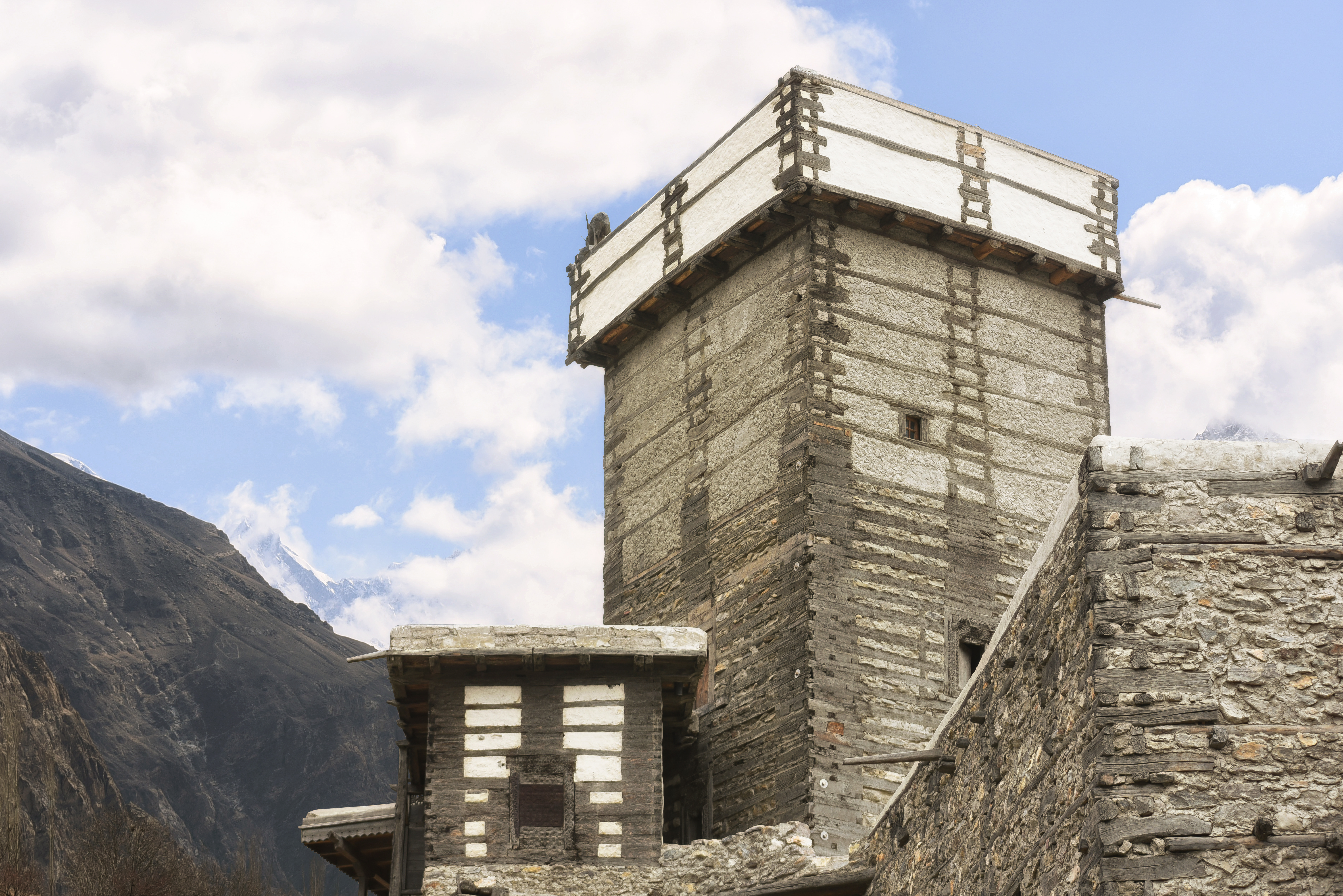 Altit Fort This is a photo of a monument in Pakistan identified as the GB-16